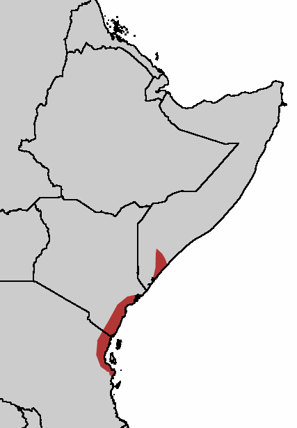 The Fisher's Turaco's Distribution.